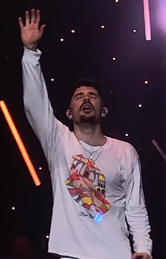 Jon Bellion closes his tour performing Good Things Fall Apart from his collaboration with Illenium on his Glory Sound Prep Tour in his hometown of Long Island, New York on August 10th, 2019!